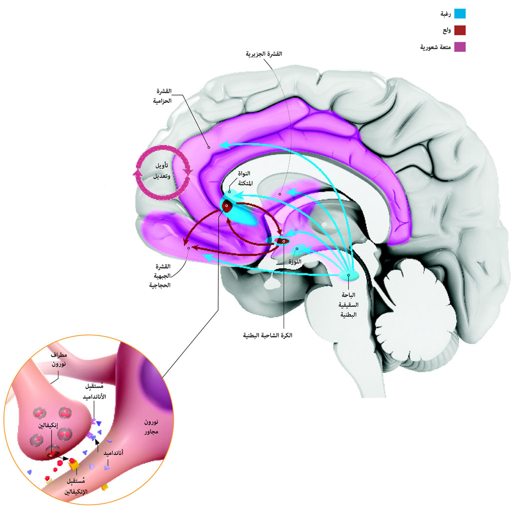 The center of pleasure in the brain